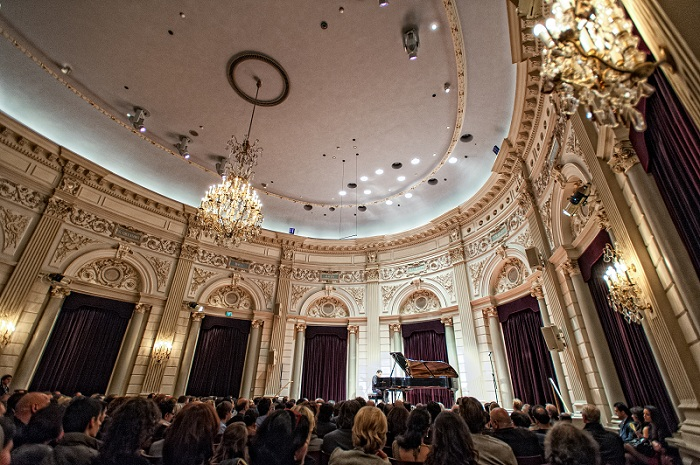 Persian piano music recital by Pejman Akbarzadeh @ Amsterdam Concertgebouw (Concert Hall), Recital Hall. April 2012. Photo by Jos van Zitten / PDN